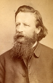 Portrait of Rev. Thomas Kinnicut Beecher